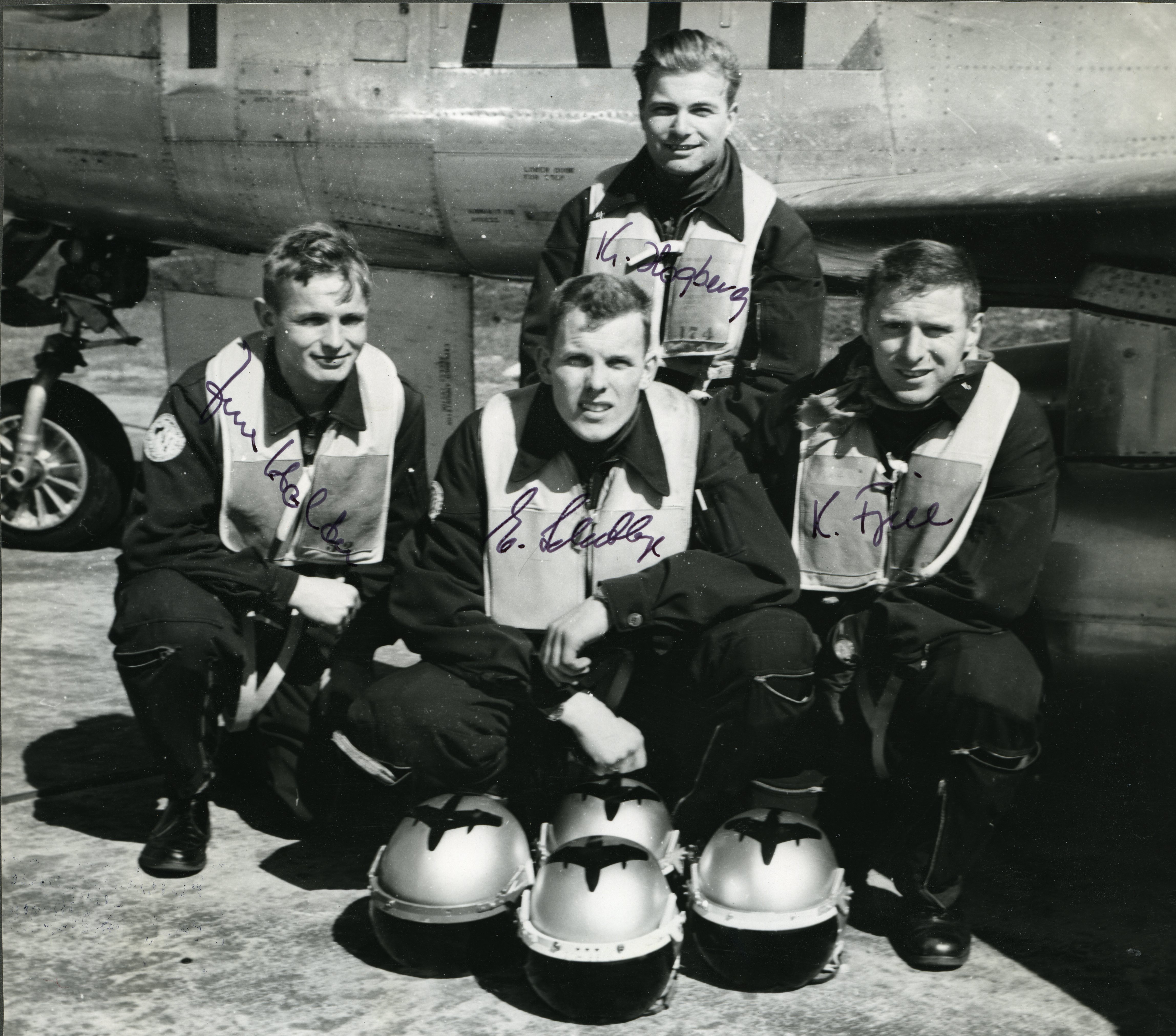 Oppvisningsteamet ”Flying Jokers” ved 332 skvadron. På bildet Jens Holter, Eyvind Schibbye, Kjell Høgberg og Knut Fjell foran en North American F-86 Sabre.